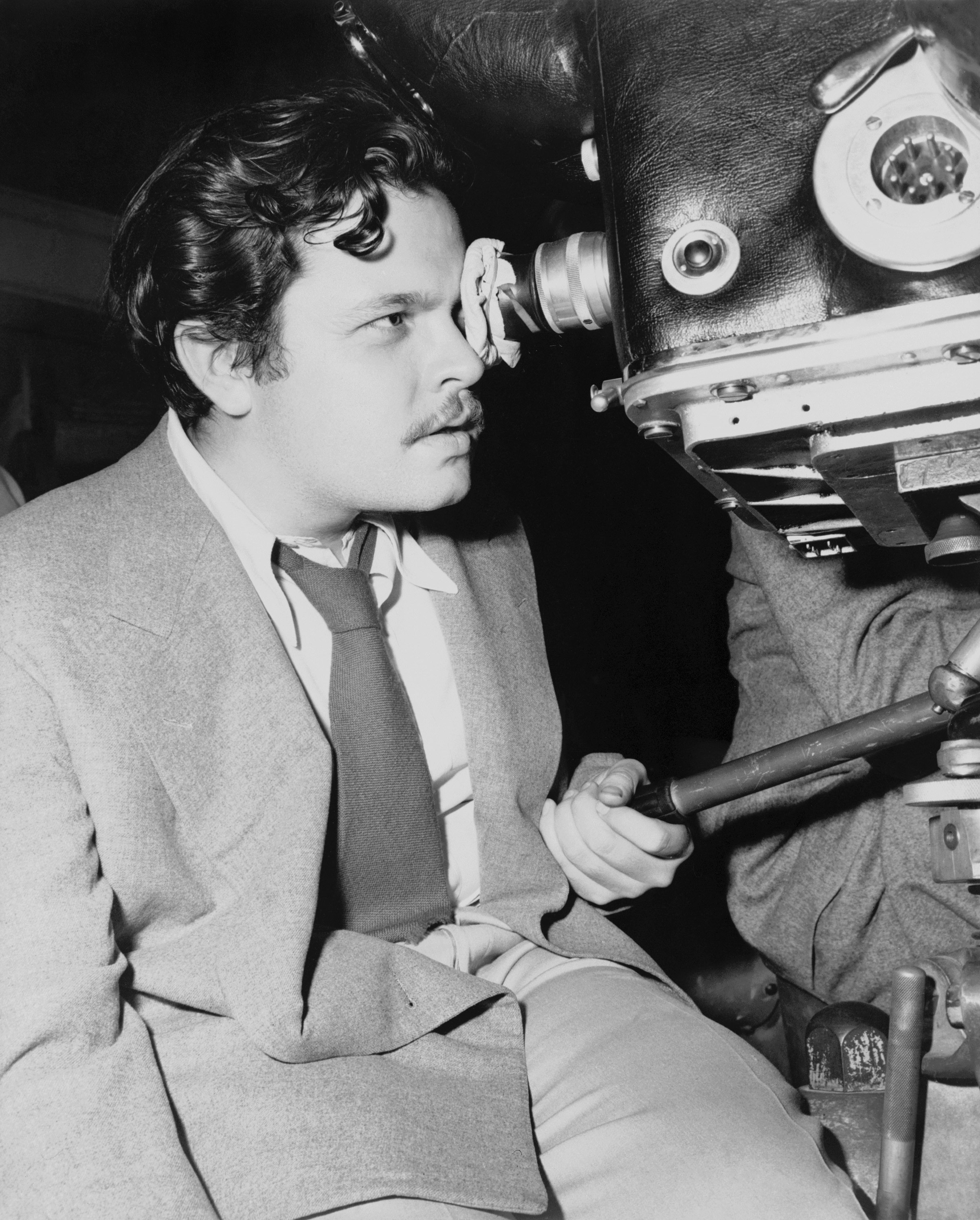 Photograph of Orson Welles at work on the 1942 film The Magnificent Ambersons